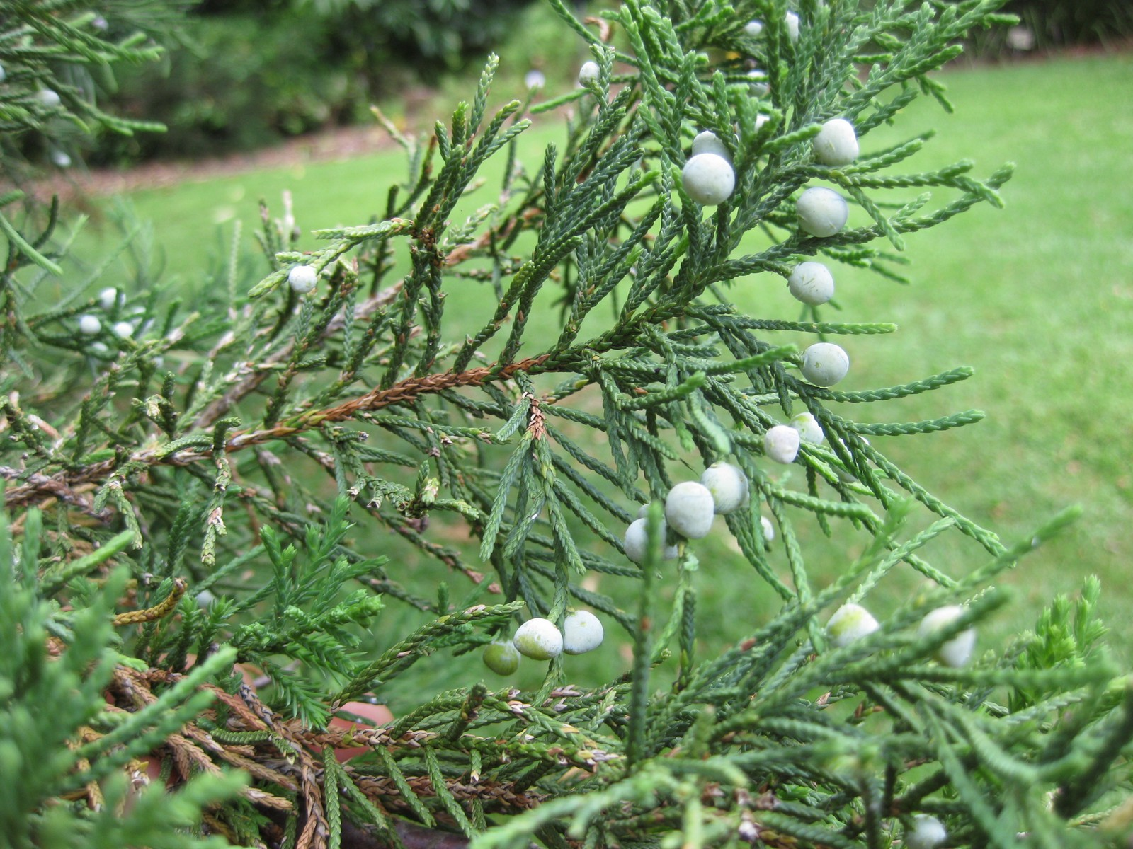 Photographed at the Royal Botanic Gardens Sydney (Australia) in January